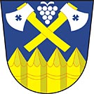 Kochanky sign